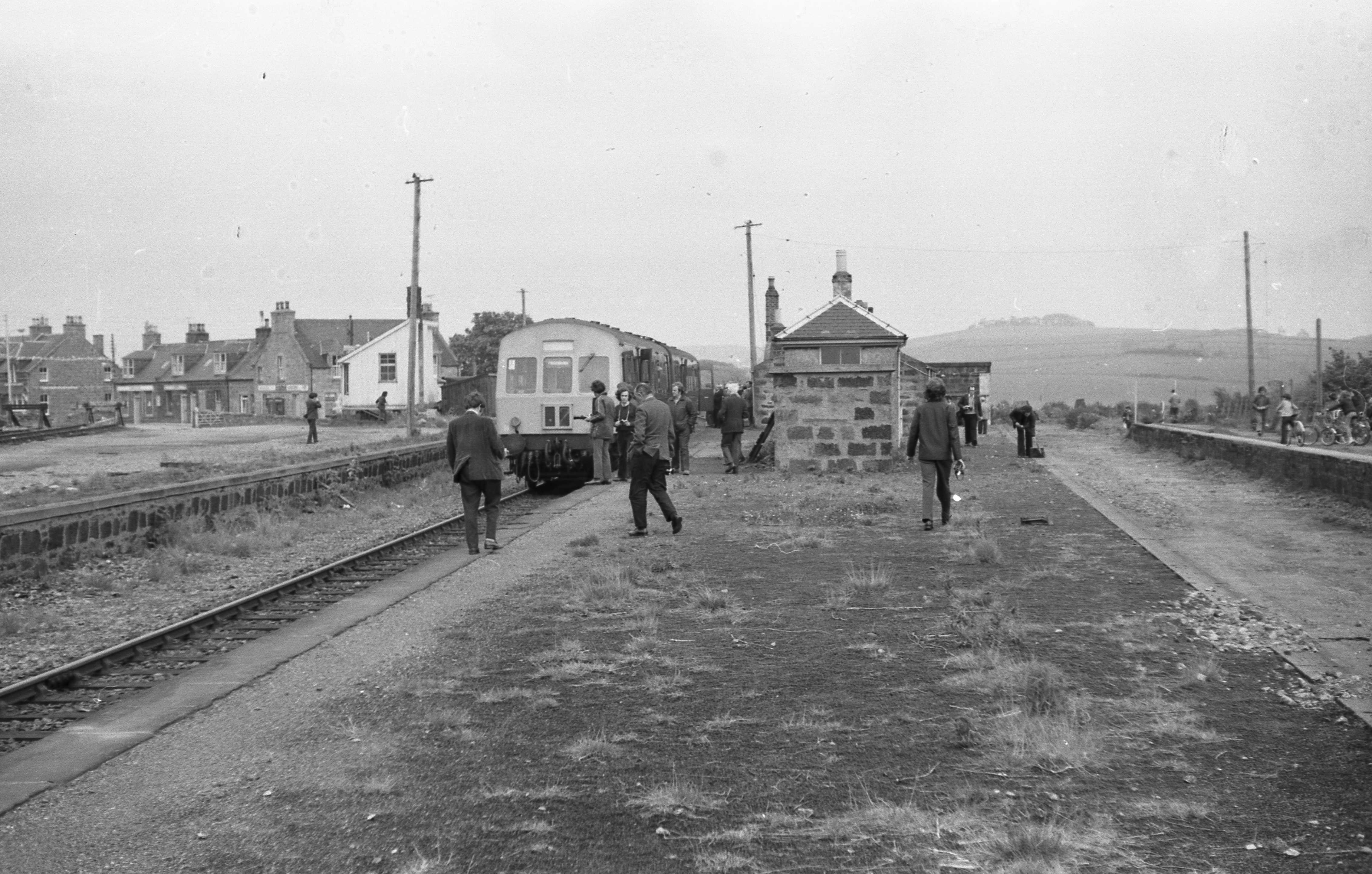 Buchan Belle railtour at Maud in North East Scotland on 1st June 1974. The line to Fraserburgh is on the left and on the right is the trackbed to Peterhead.